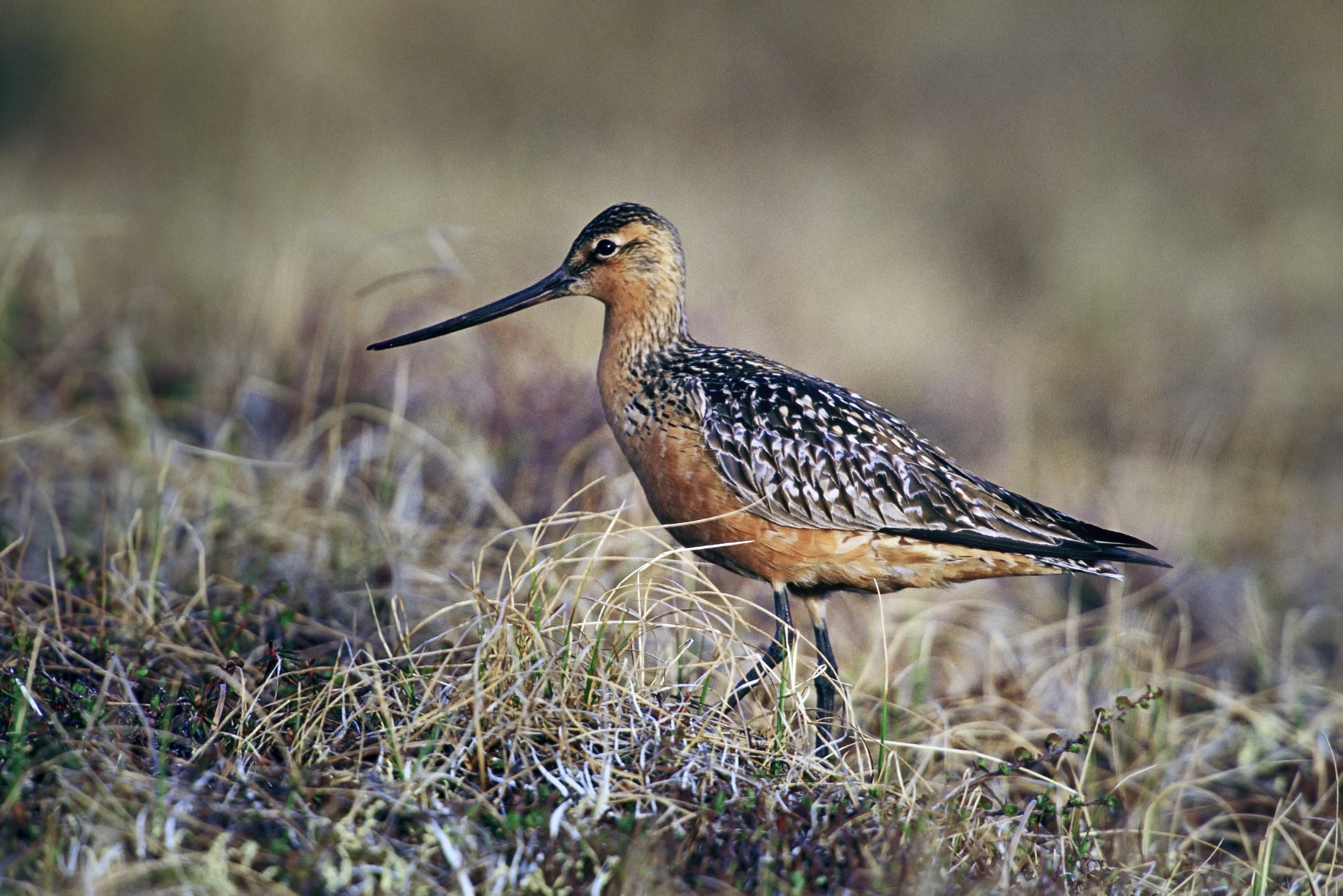 Bar-Tailed Godwit (Limosa lapponica) on Tundra Description: Bar-tailed Godwits are large wading birds at about 37 to 45 cm. The Bar-tailed Godwit is a mottled brown in the upper body and a lighter buff below. It has a white underwing, and a long, slightly upturned bill. As the name suggests, the white tail is barred with brown. This is the non-breeding plumage of the Bar-tailed Godwit and is the main phase seen in Australia. The breeding plumage is darker and more rufous, with females duller than males. Young birds resemble non-breeding birds. For more information about this species visit Location: Alaska Item IDWV-3465-CD36 Source: NCTC Image Library Original Format: 35 mm slide Date created: 2005-12-20 Date modified: 2009-02-06